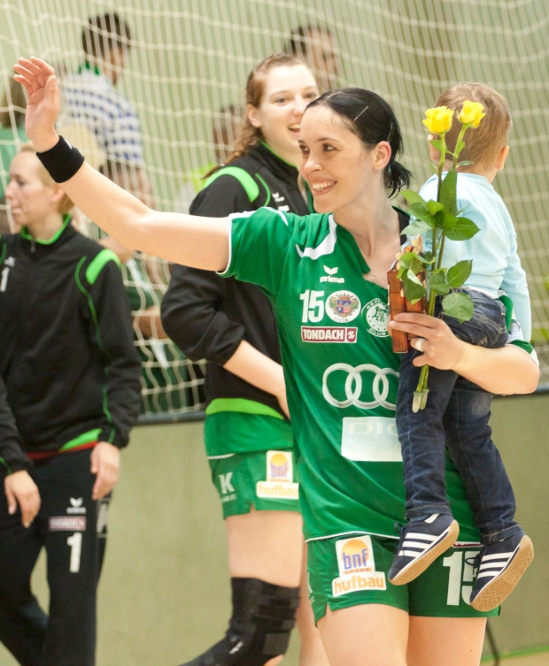 Handball player Aurelia Brădeanu